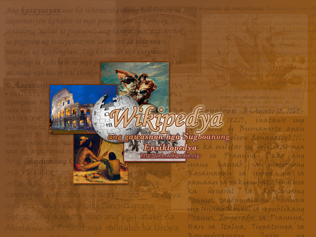 A wallpaper for the promotion of the Cebuano Wikipedia. Several texts from the Cebuano Wikipedia, and images taken from commons. The images used are